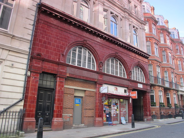 The former Down Street tube station, Down Street, London, W1